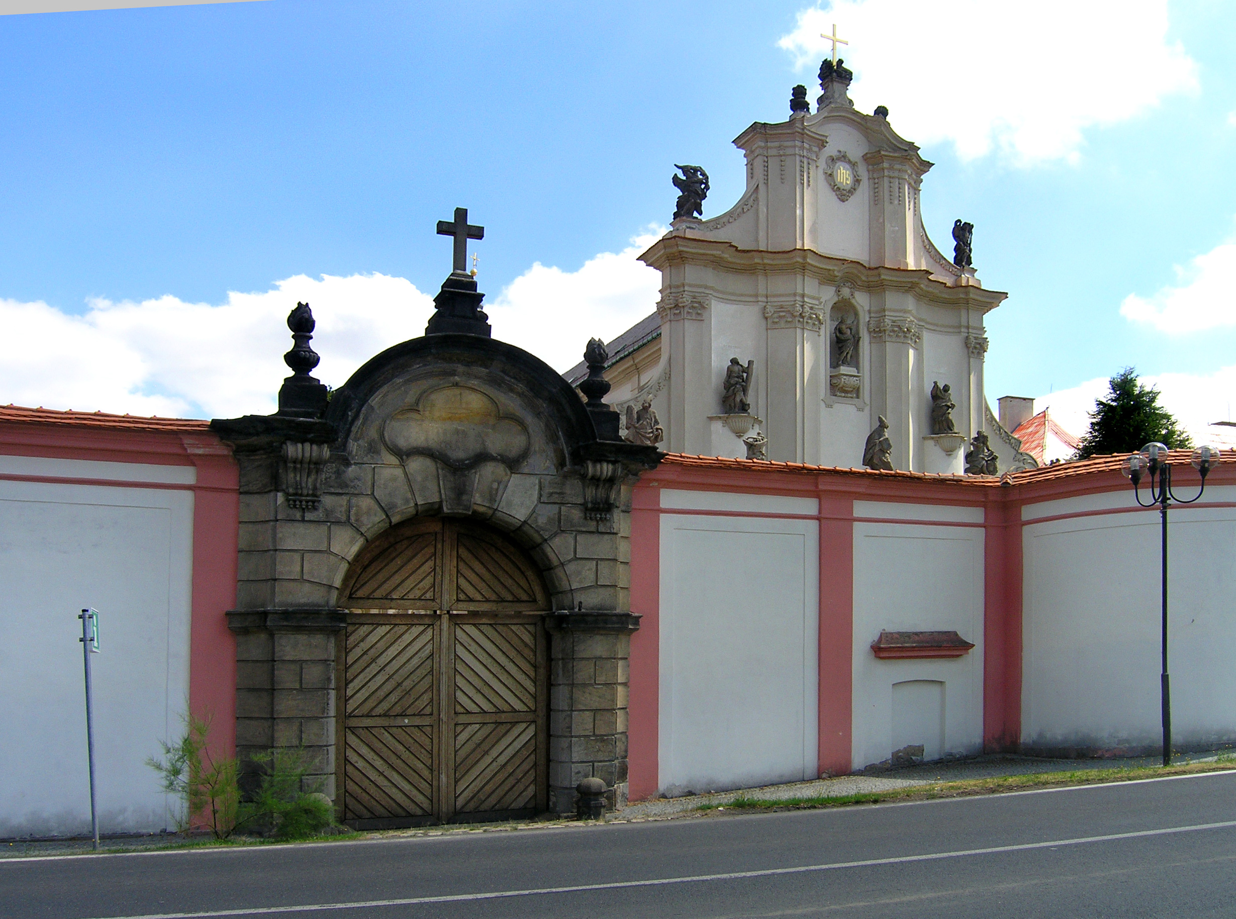 Osek Monastery in Osek town, Czech Republic